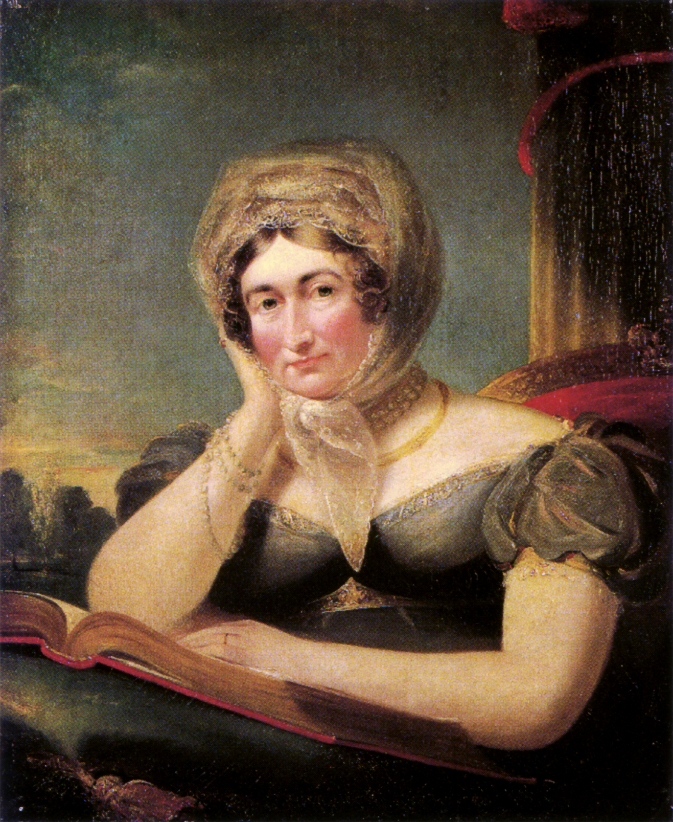 This PNG image has a thumbnail version at File: Caroline of Brunswick by James Londale.jpg. Generally, the thumbnail version should be used when displaying the file from Commons, in order to reduce the file size of thumbnail images. Any edits to the image should be based on this PNG version in order to prevent generational loss, and both versions should be updated. See here for more information. Given to NPG in 1873.